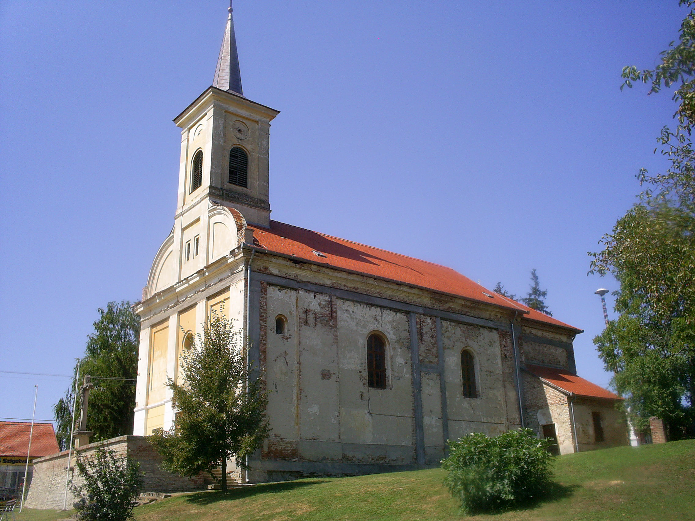 sideview of the church of Ibafa